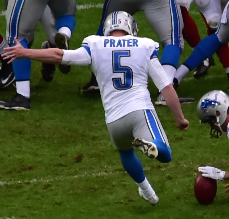 Detroit Lions vs Atlanta Falcons - Wembley 2014